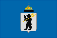 Yaroslavl, flag